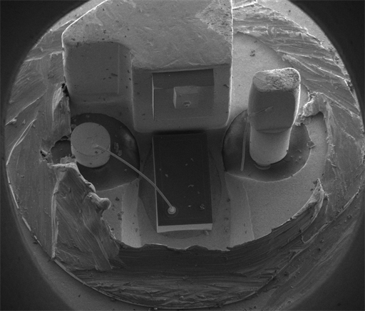 This is a SEM (Scanning Electron Microscope) image of a commercial laser diode with its case cut away. One can see the anode connection to the diode broken (on the right) by the case cut process. The wire on the left is connected to the power monitoring photodiode. The laser diode is the small rectangular chip in the center top of the image.